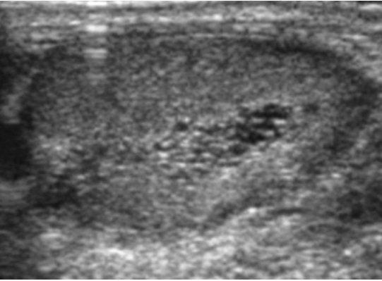 Scrotal ultrasonography of tubular ectasia